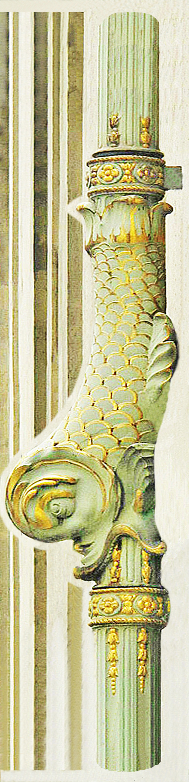 Cast iron downpipe.